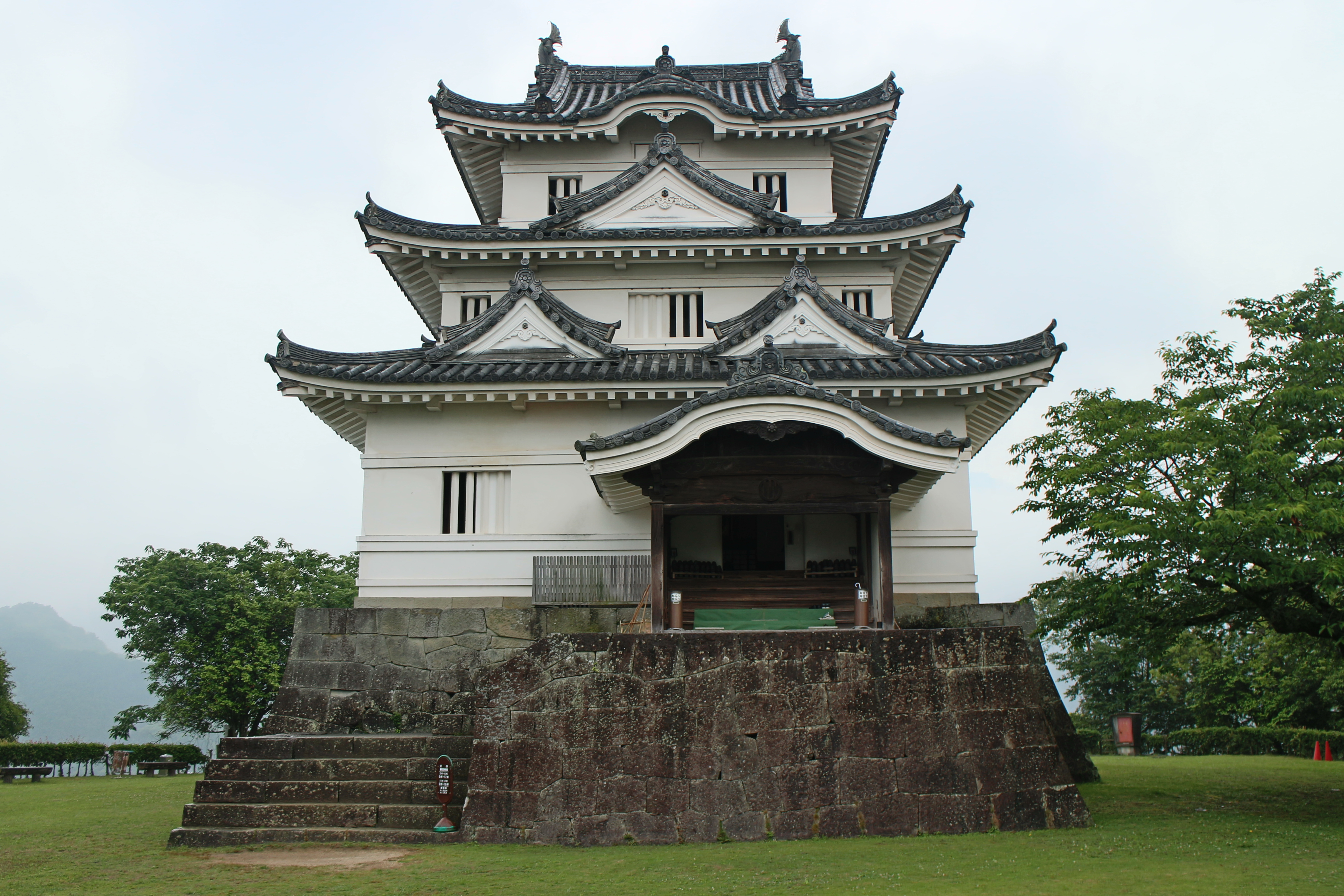 Uwajima Castle Keep Tower